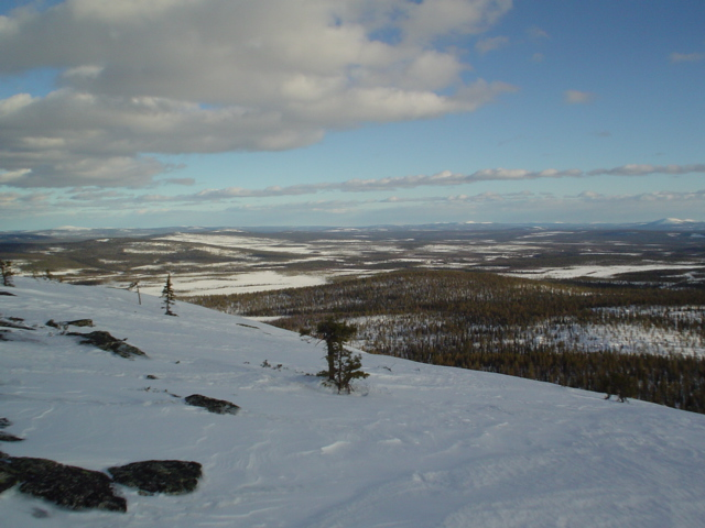 Karhutunturi in Salla